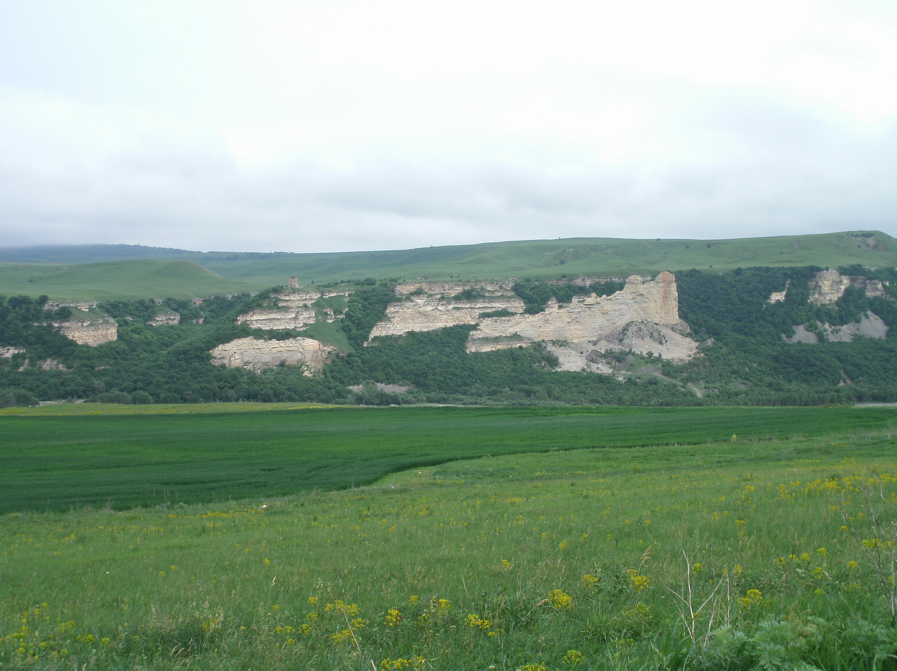 Adiyukh Gorge